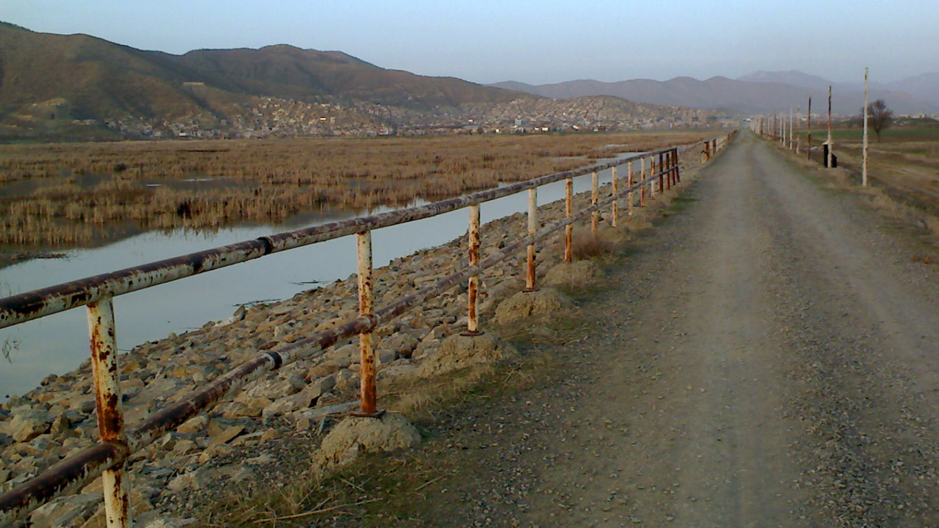 Zrebar Embankment Dam